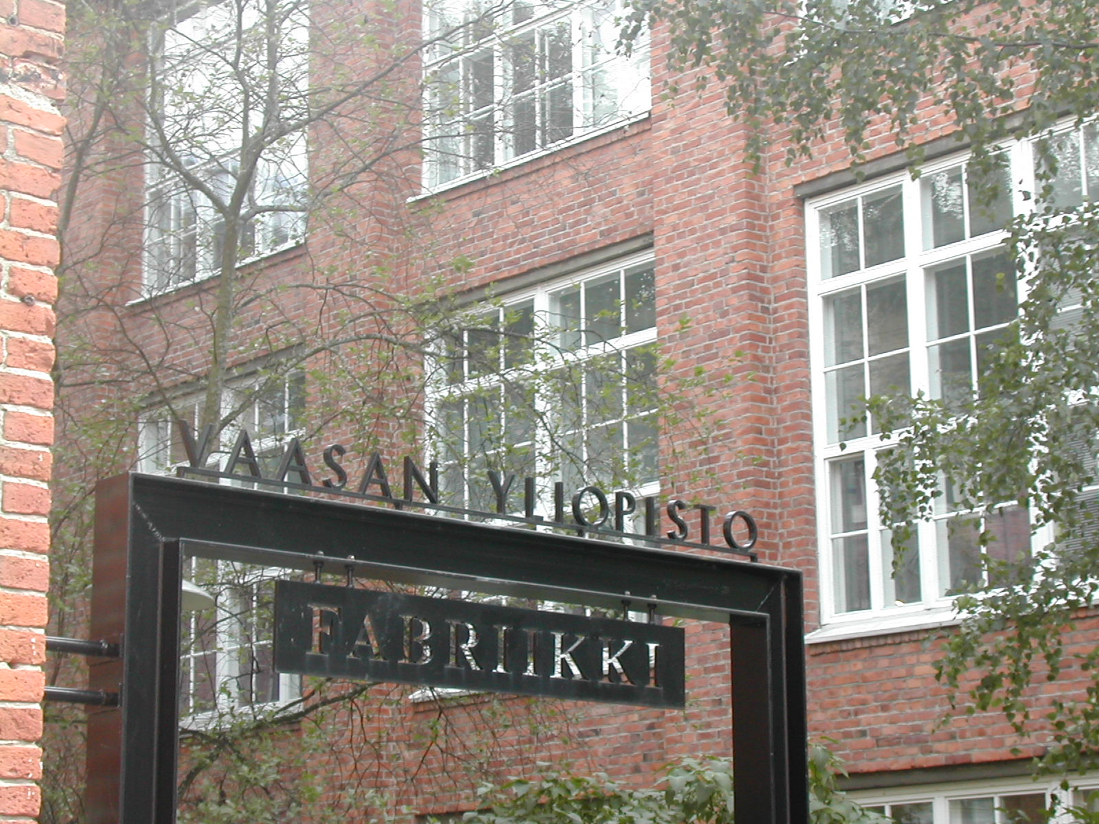 Part of the University of Vaasa is housed in a former cotton mill in Palosaari. This part of the university is called 'Fabriikki'. Ostrobothnian region.